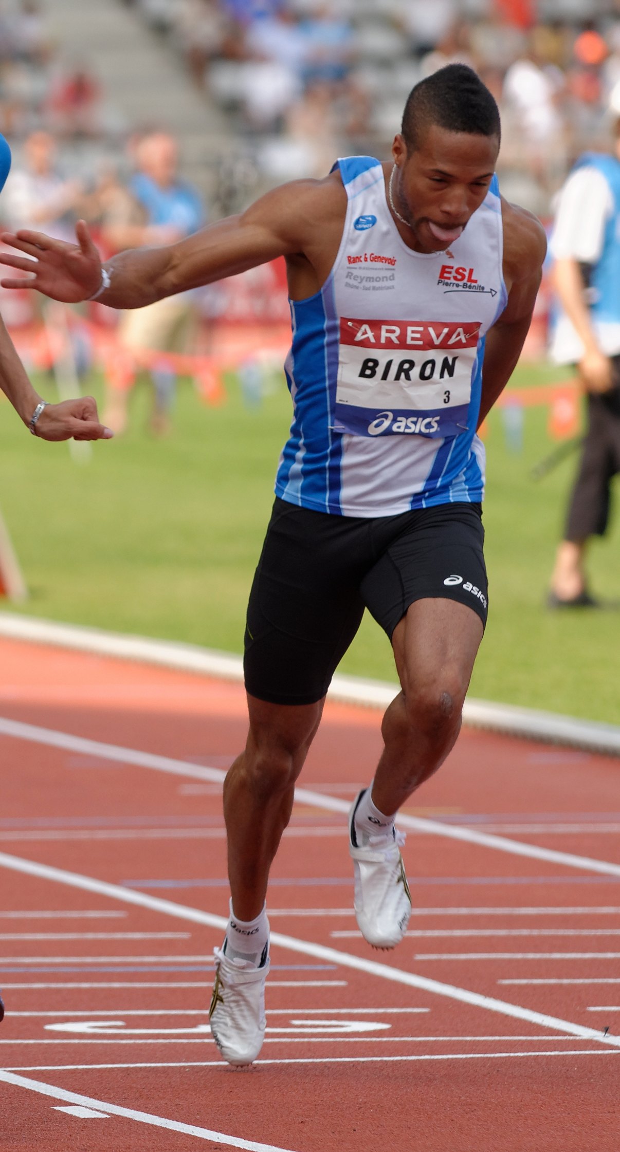 From left to right, Jimmy Vicaut, Christophe Lemaitre, Emmanuel Biron, and Béranger Aymard Bosse decelerate after running the men's 100-metre race during the French Athletics Championships 2013 at Stade Charléty in Paris, 13 July 2013.